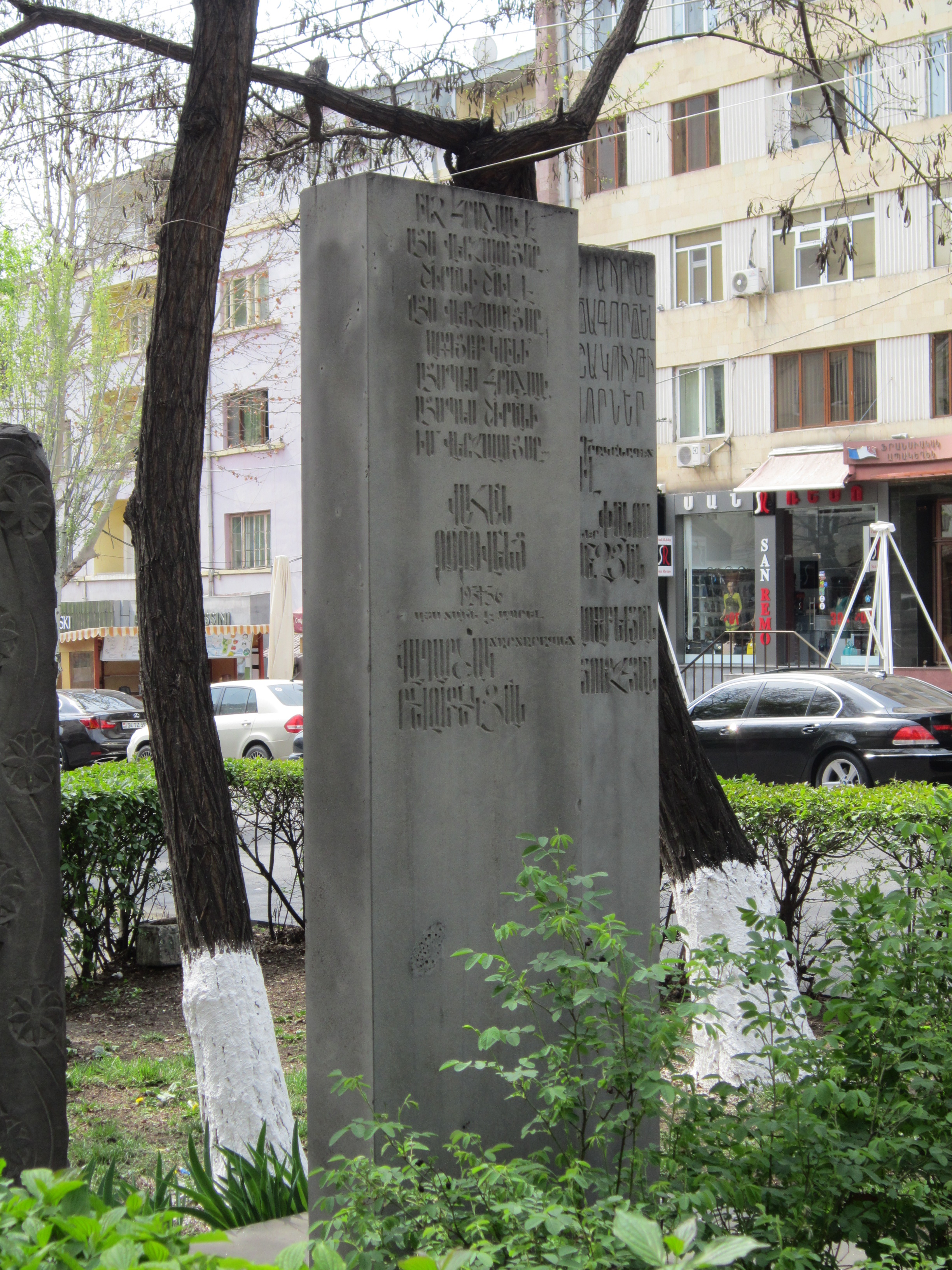 Memorial stone of Vahan Totovents in Yerevan